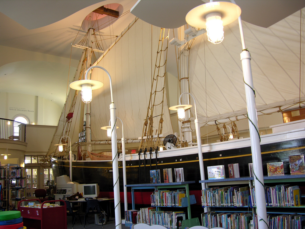 The interior of the Provincetown public library, formerly the Center Methodist Church, and then the Provincetown Heritage Museum. When it moved into the space, the Library was remodeled to incorporate (rather than to remove and destroy) a half-scale replica of the Provincetown-built Grand Banks fishing schooner Rose Dorothea. On August 1, 1907, the Rose Dorothea won the Lipton's Cup, despite breaking one of her masts, in the first and only Fisherman's Race, a 42-mile race from Provincetown to Gloucester to Boston. The original vessel was was sold in 1916 to a Newfoundland company that used her to ferry salt and other supplies to Portugal. In February 1917, a German U-Boat submarine surfaced next to the schooner as she neared the coast of Lisbon, and then, after allowing her crew to evacuate in lifeboats, sank her.[1] The Heritage Museum commissioned the replica sixty years later, in 1977, and construction began. Eleven years after that, it was dedicated on June 25, 1988. The completed model spans a 66’6” length and a 12’6” beam. The original vessel was 108.7 feet long, weighed 108 tons and had a crew of 26 men.[2]